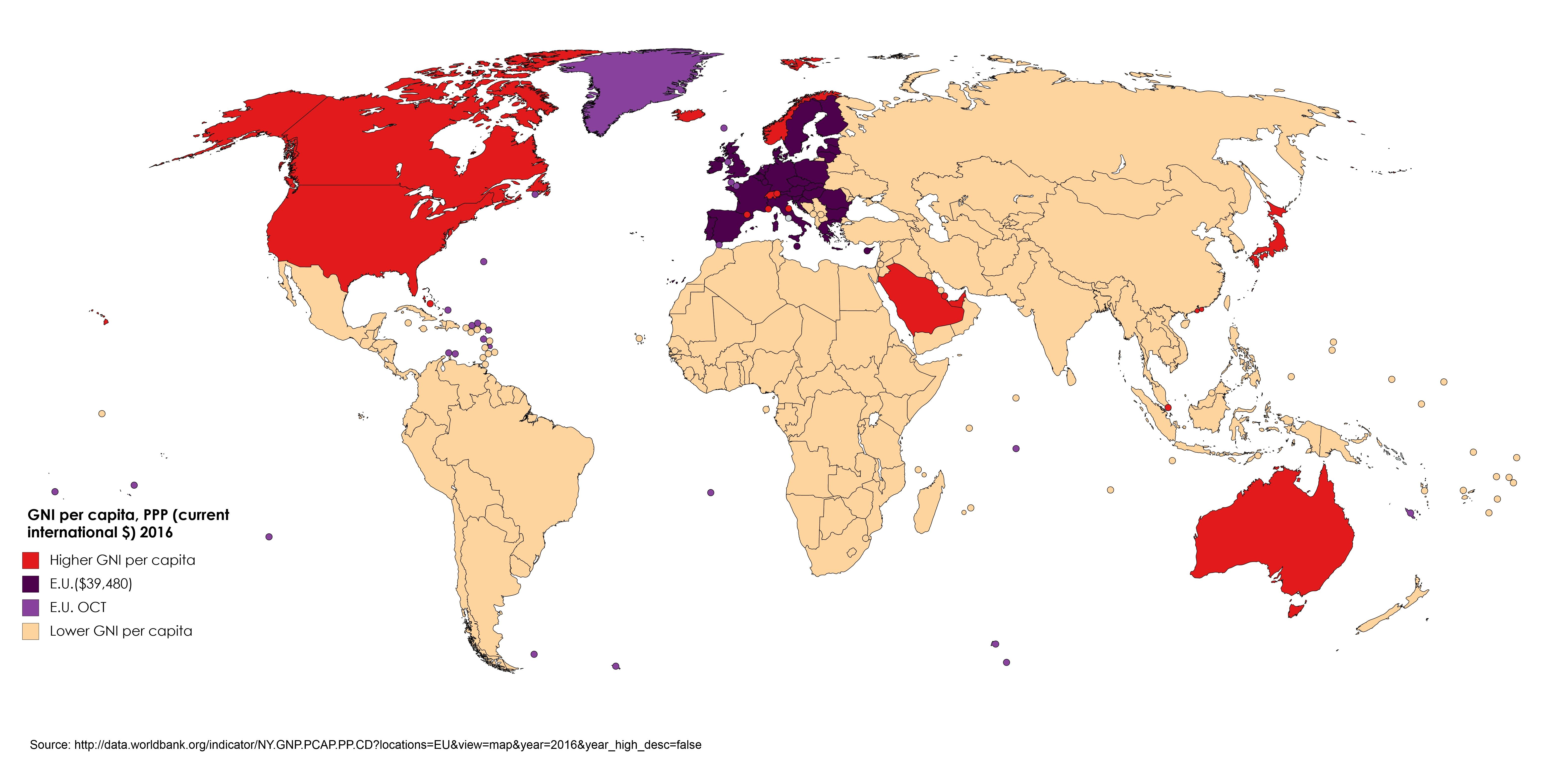 GNI per capita E.U.